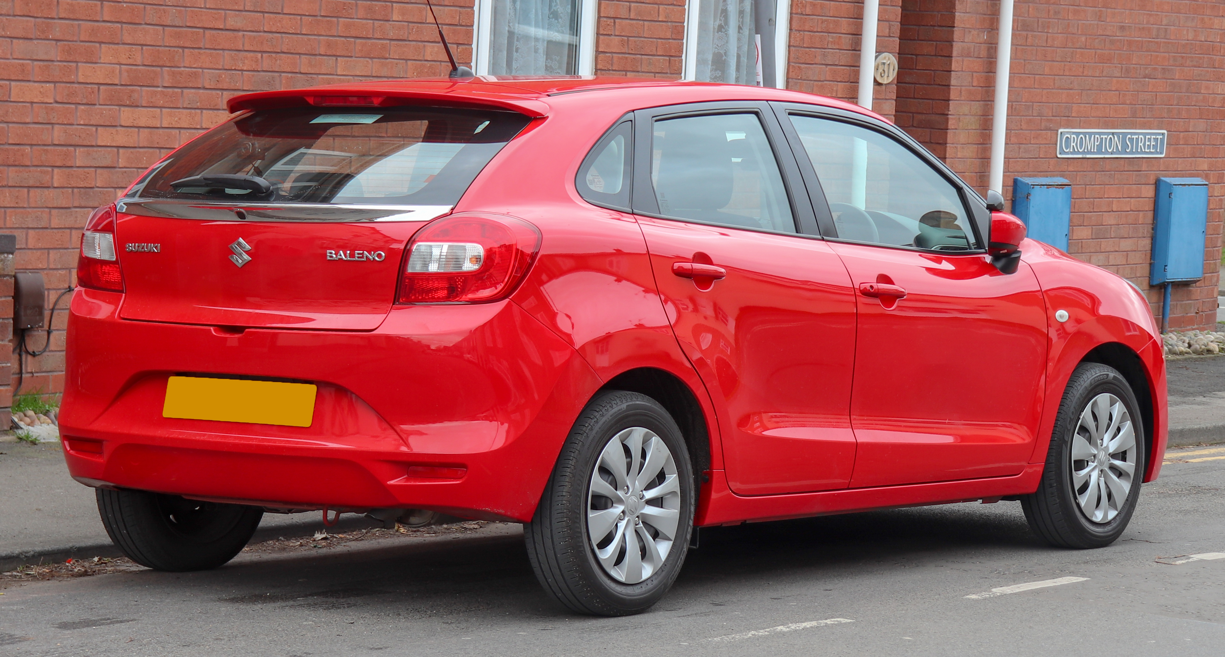 2017 Suzuki Baleno SZ3 Dualjet 1.2 Rear Taken in Warwick